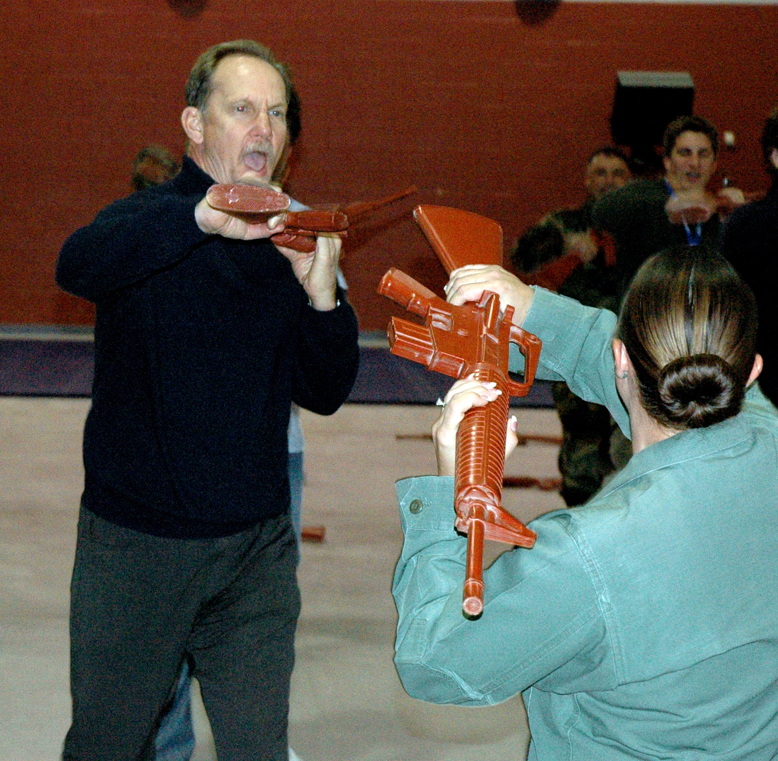 Actor Michael O'Neill practices some self-defense tactics with instructor Rhonda Battles using an M-16 training aid while visiting Lackland Air Force Base, Texas, during a National Civic Outreach Program tour. Ms. Battles is with the 343rd Training Squadron. (U.S. Air Force photo/Tech. Sgt. Cortchie Welch)